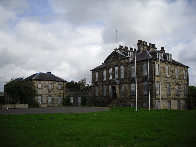 Cumbernauld House This large property was not in use at the time of my visit.